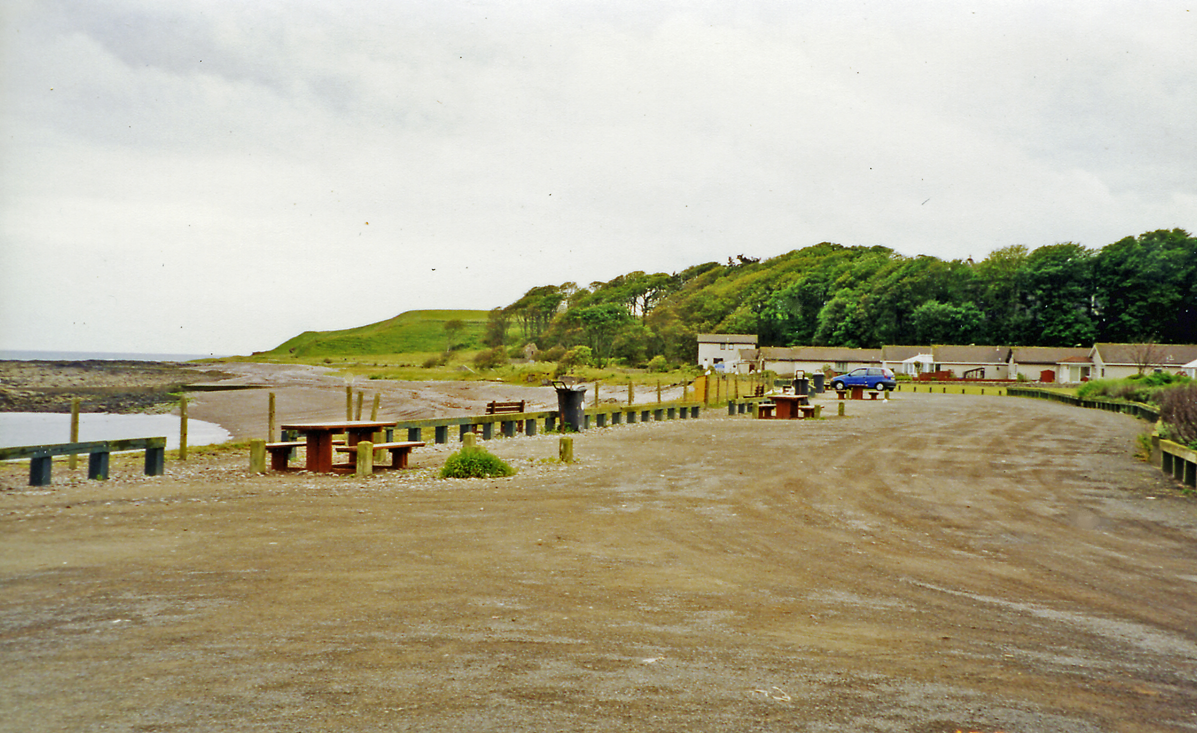 Site of Inverbervie station, 2002. View SE, towards Montrose; ex-NBR Montrose - Inverbervie branch, which closed for passengers on 4/5/64, for goods on 25/1/65. The station had been on the right, called 'Bervie' until 5/7/26. There is not much change since 1974: NO8372 : Site of Inverbervie Station.